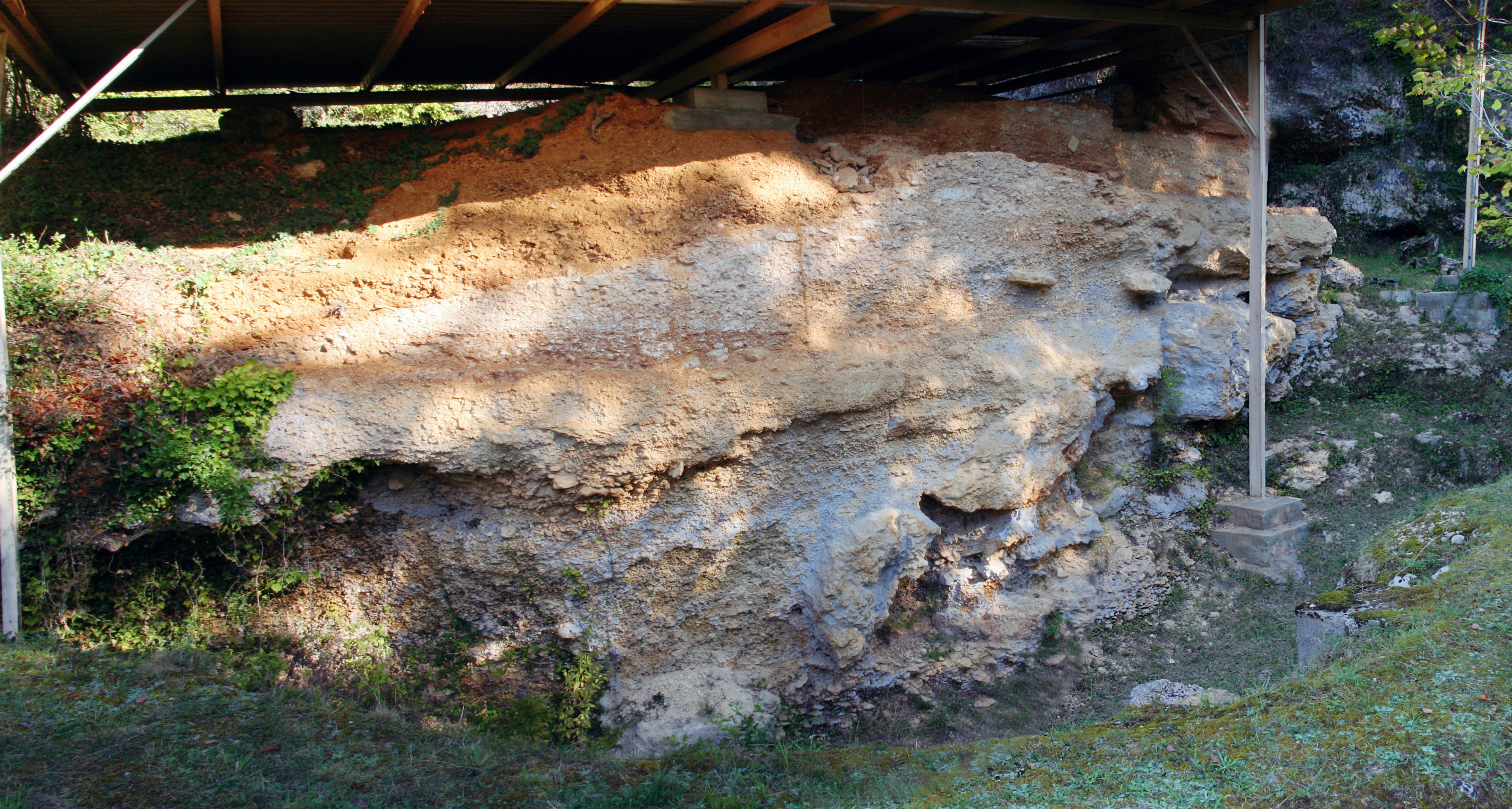 The rockshelter of La Micoque, Les Eyzies-de-Tayac, Dordogne, France. This site was occupied by Homo Erectus, between near 440,000 and 350,000 BPn and near 250,000 BP.